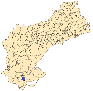 Freginals